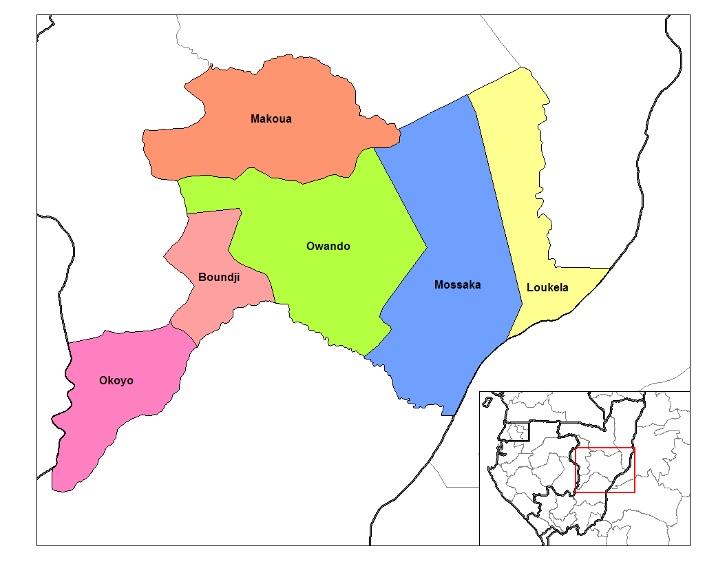 Map of the districts of Cuvette region in the Republic of the Congo. Created by Rarelibra 13:28, 12 September 2006 (UTC) for public domain use, using MapInfo Professional v8.5 and various mapping resources.